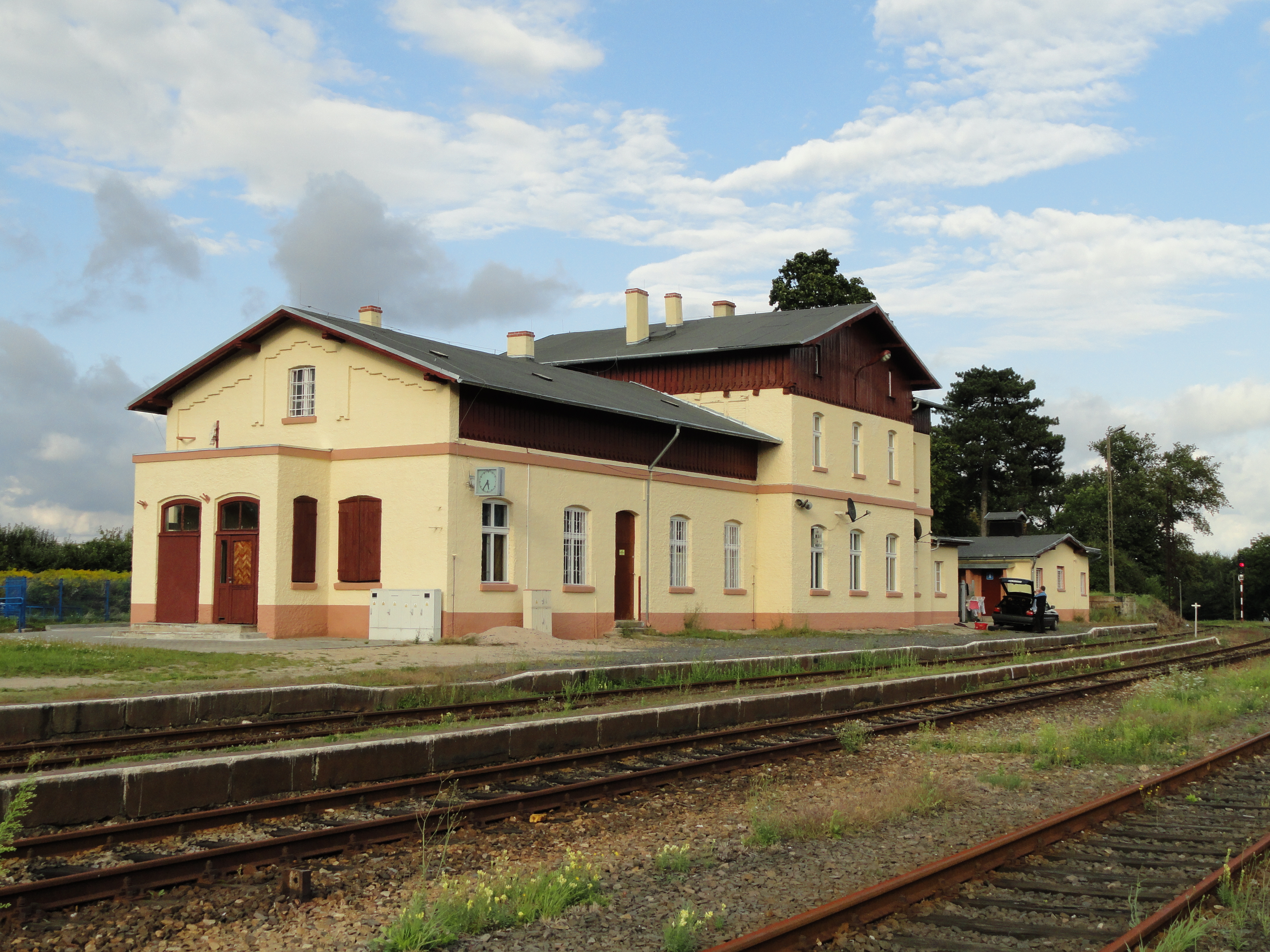 PKP train station „Zgorzelec“, former „Görlitz-Moys“ in Poland